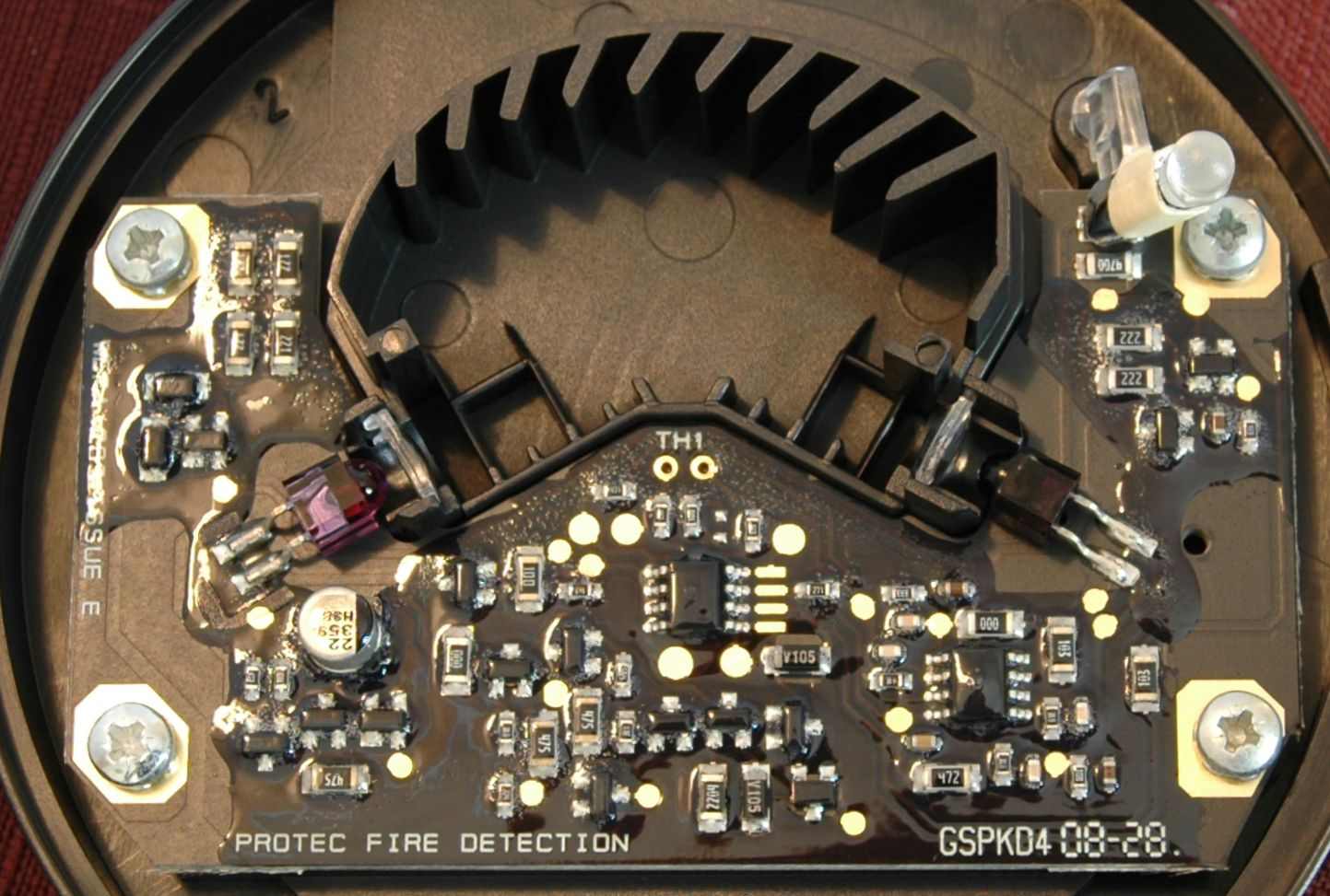 Inside view of an optical smoke detector.